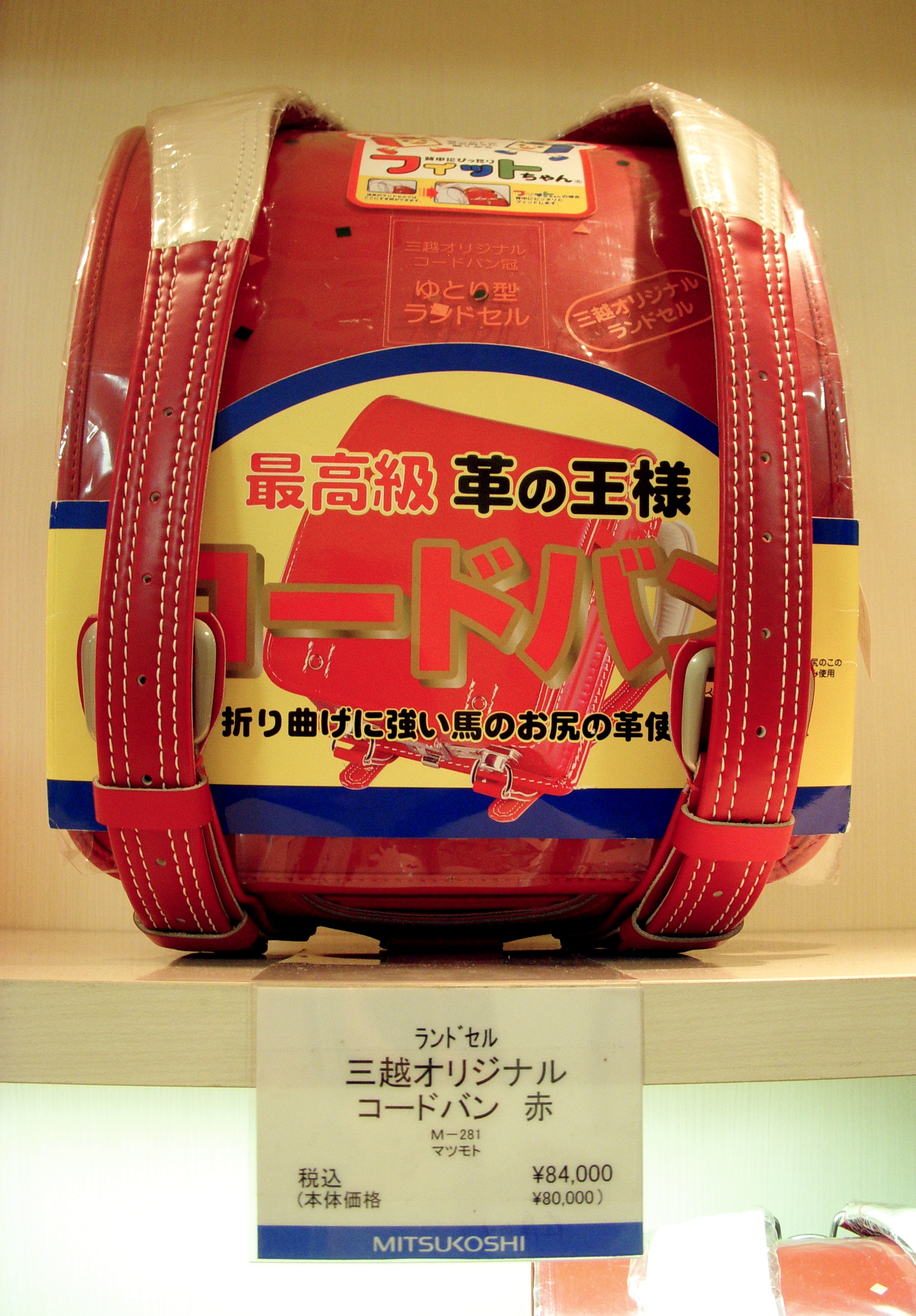 A randoseru or backpack for Japanese elemantary-school-pupils. This red one is for girls and is 84,000 yen, or about US $1092.